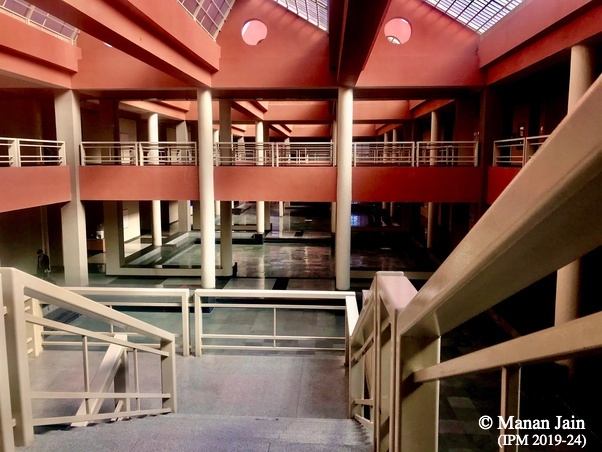 Indian Institute of Management